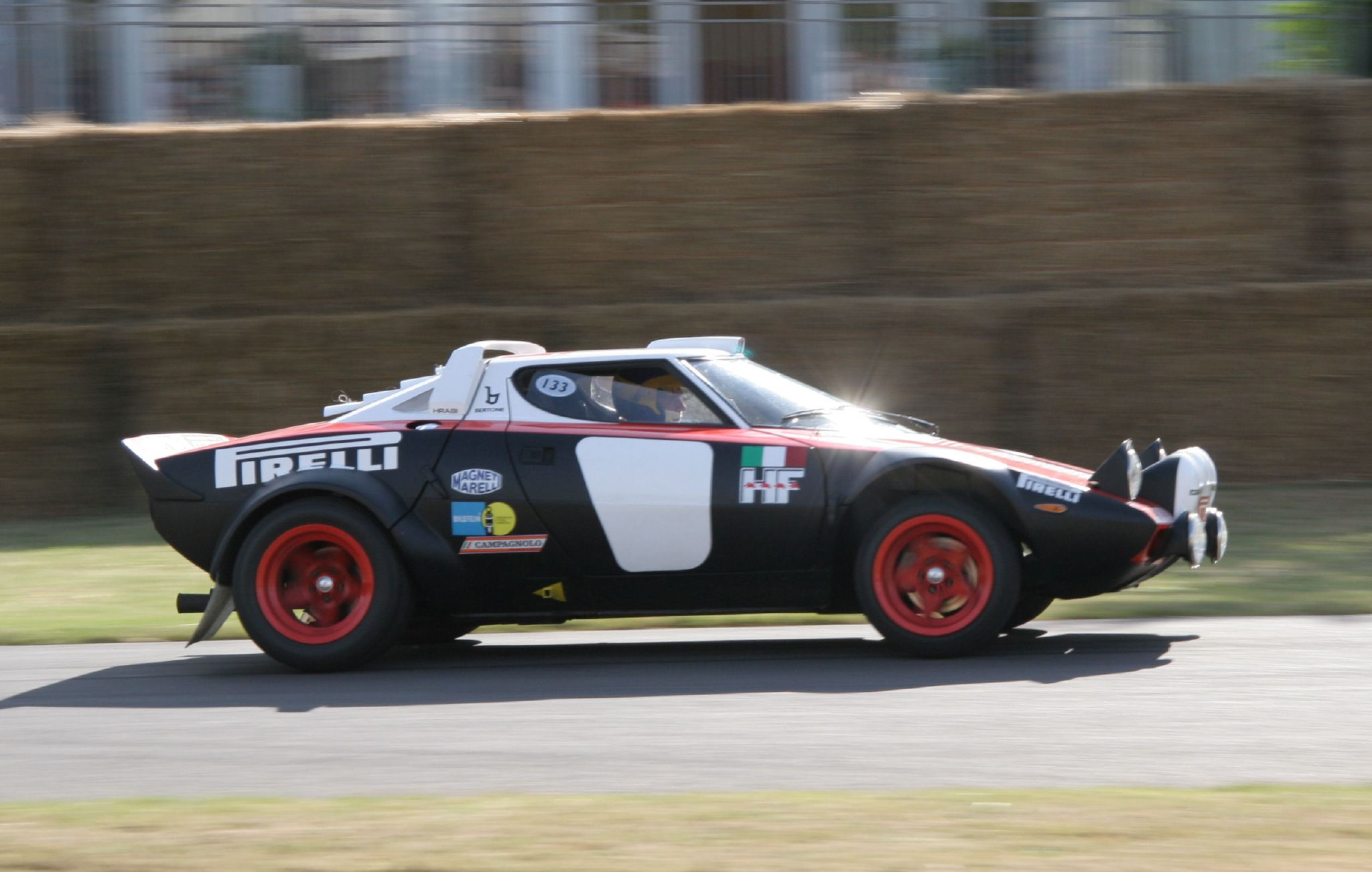 1975 Lancia Stratos HF at the 2006 Goodwood Festival of Speed